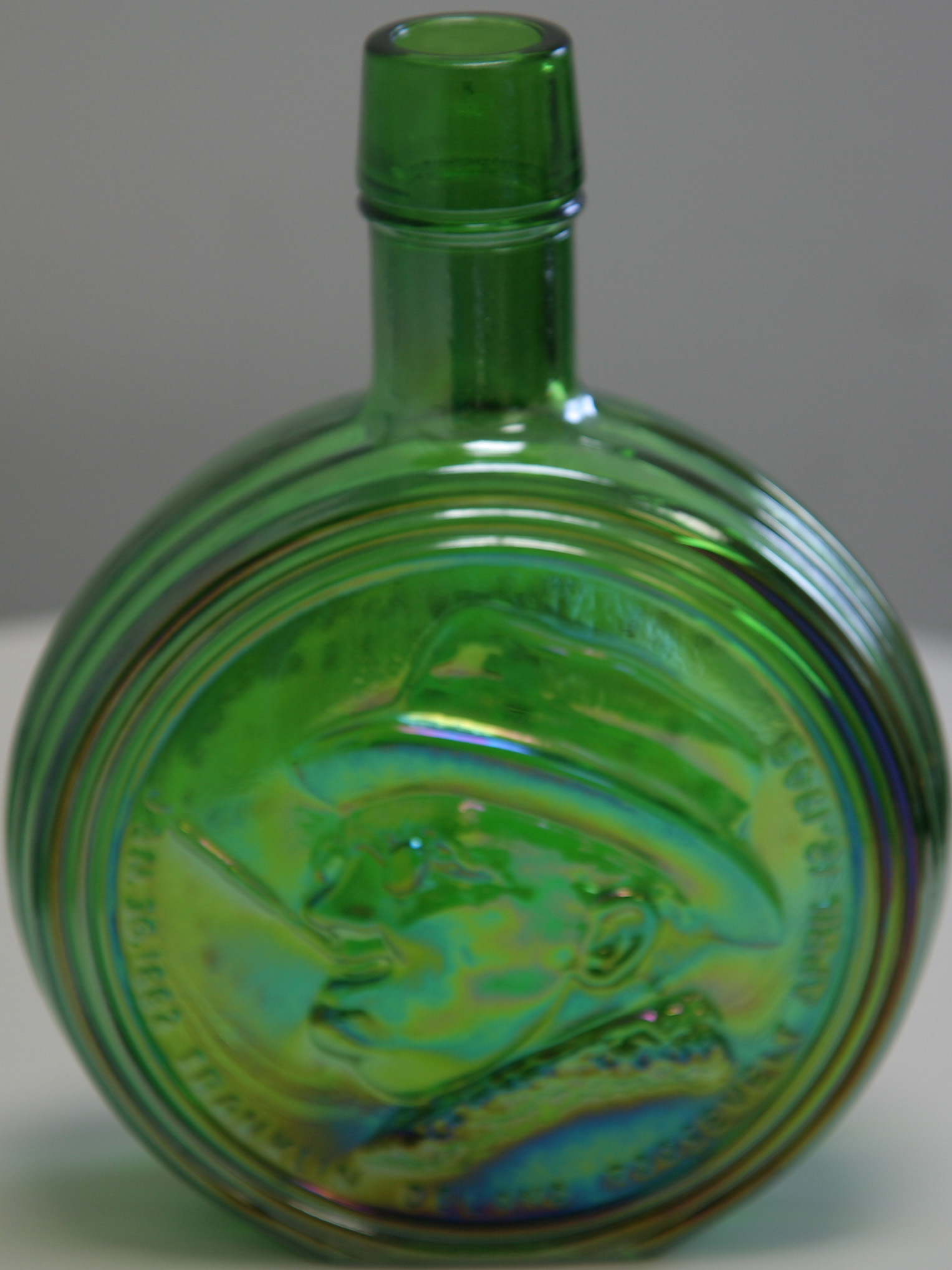 A Wheaton bottle which characterizes Franklin D. Roosevelt with his iconic cigarette holder.